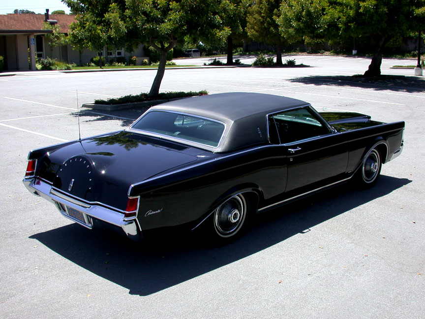 source-self